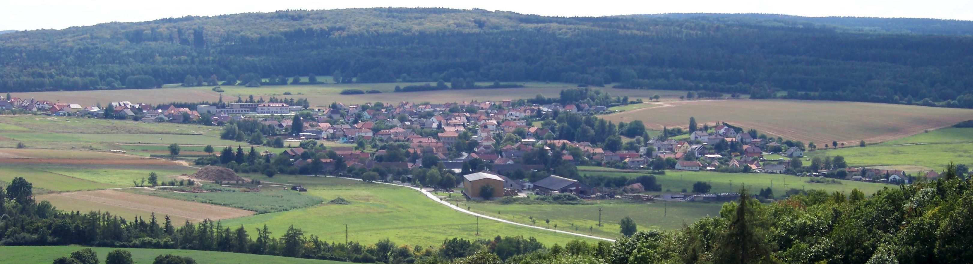 Rakovník District and Beroun District, Central Bohemian Region, the Czech Republic. A views of village of Broumy from Špička Hill. - Google Maps - Google Earth